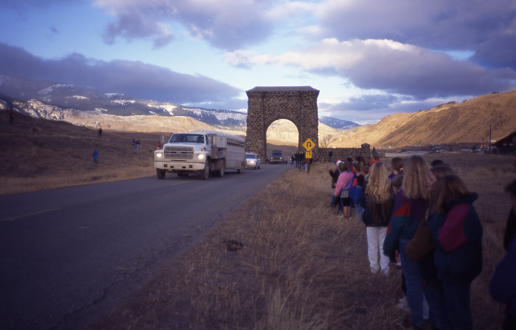 National Park Service transporting Canadian Wolves into Yellowstone National Park at Gardiner, MT for re-introduction, January 1995